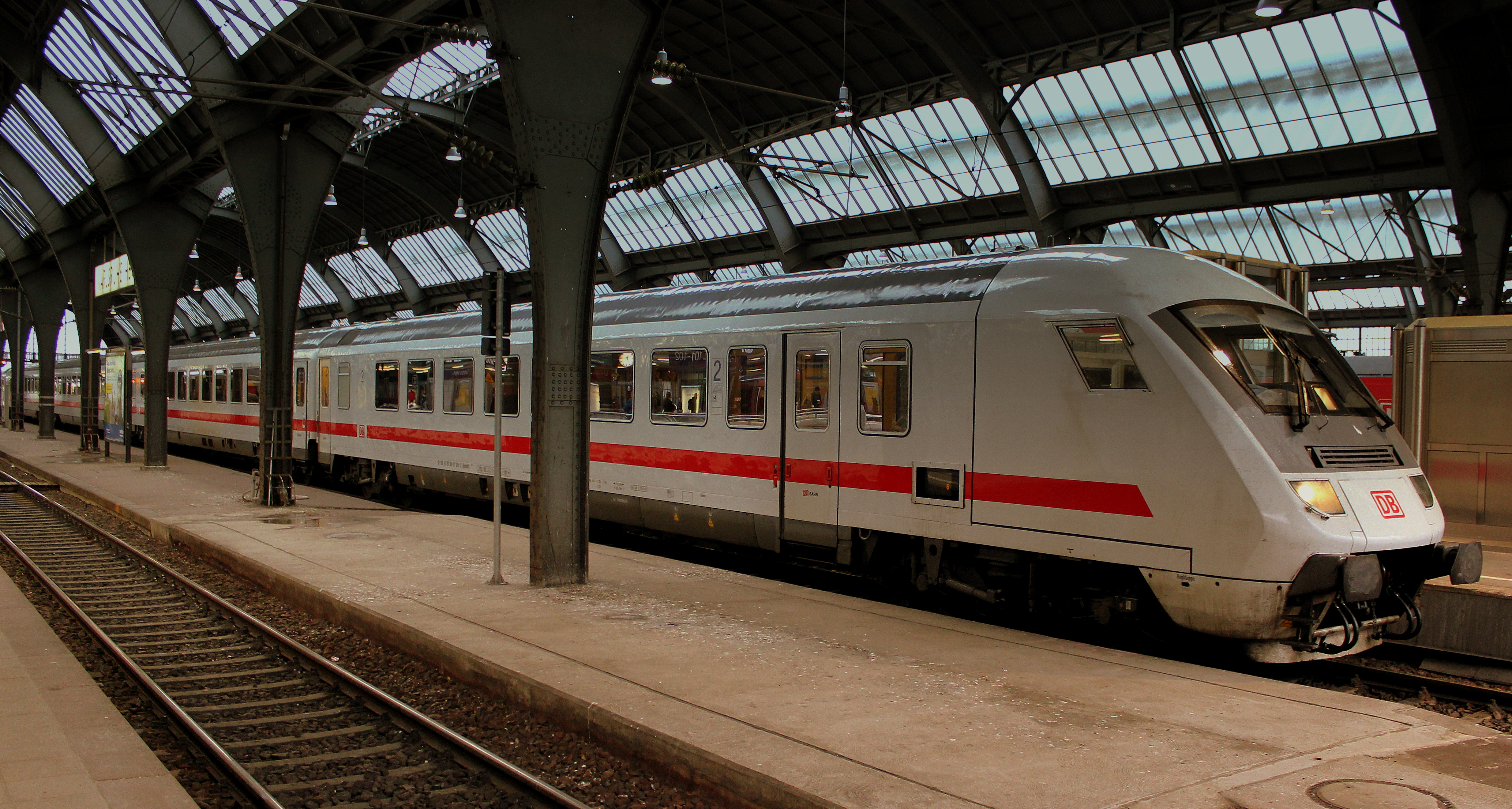 DB INTER CITY TRAIN AT KARSRUHE BAHNHOF GERMANY APRIL 2013